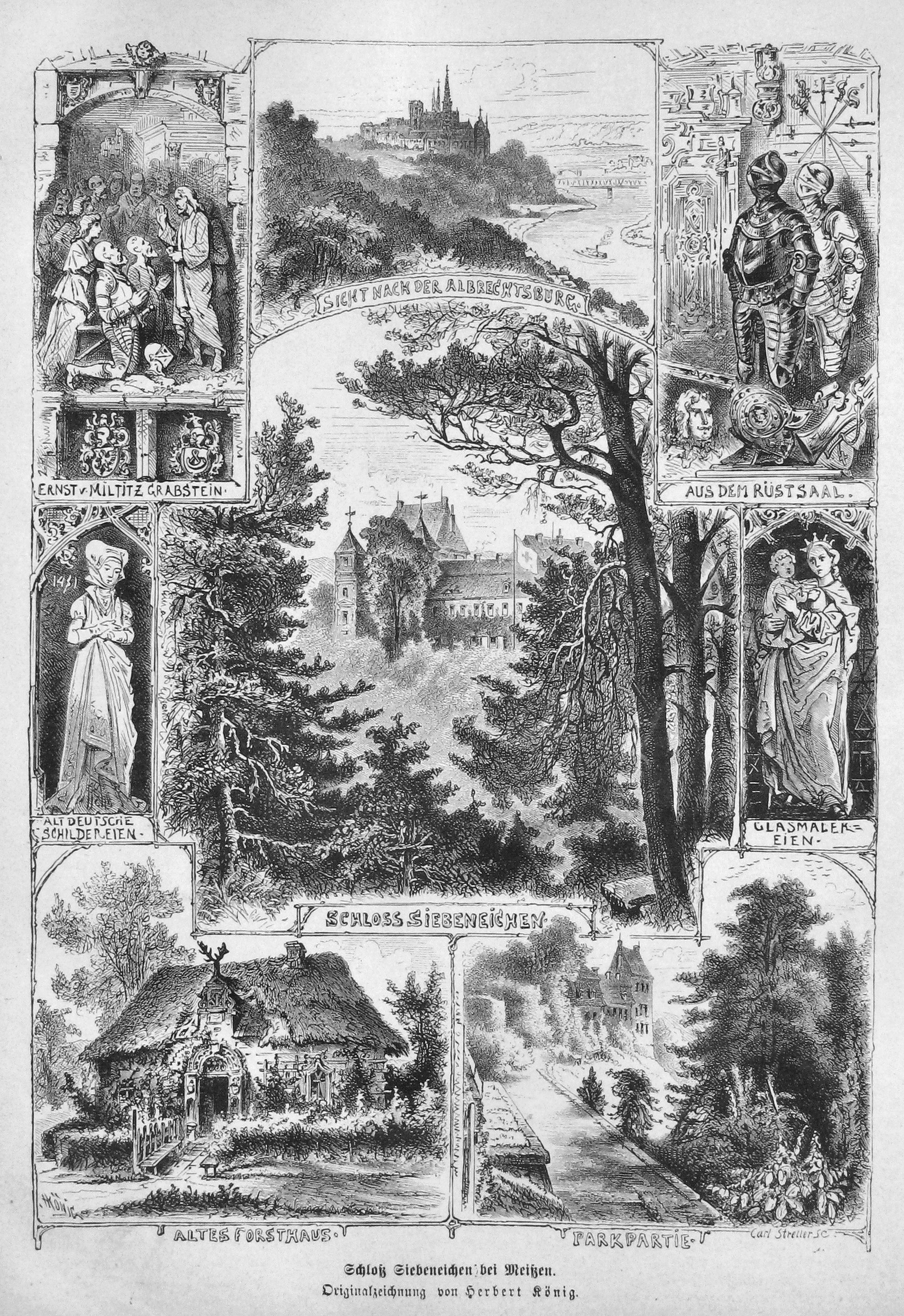 caption: "Schloß Siebeneichen bei Meißen. Originalzeichnung von Herbert König."